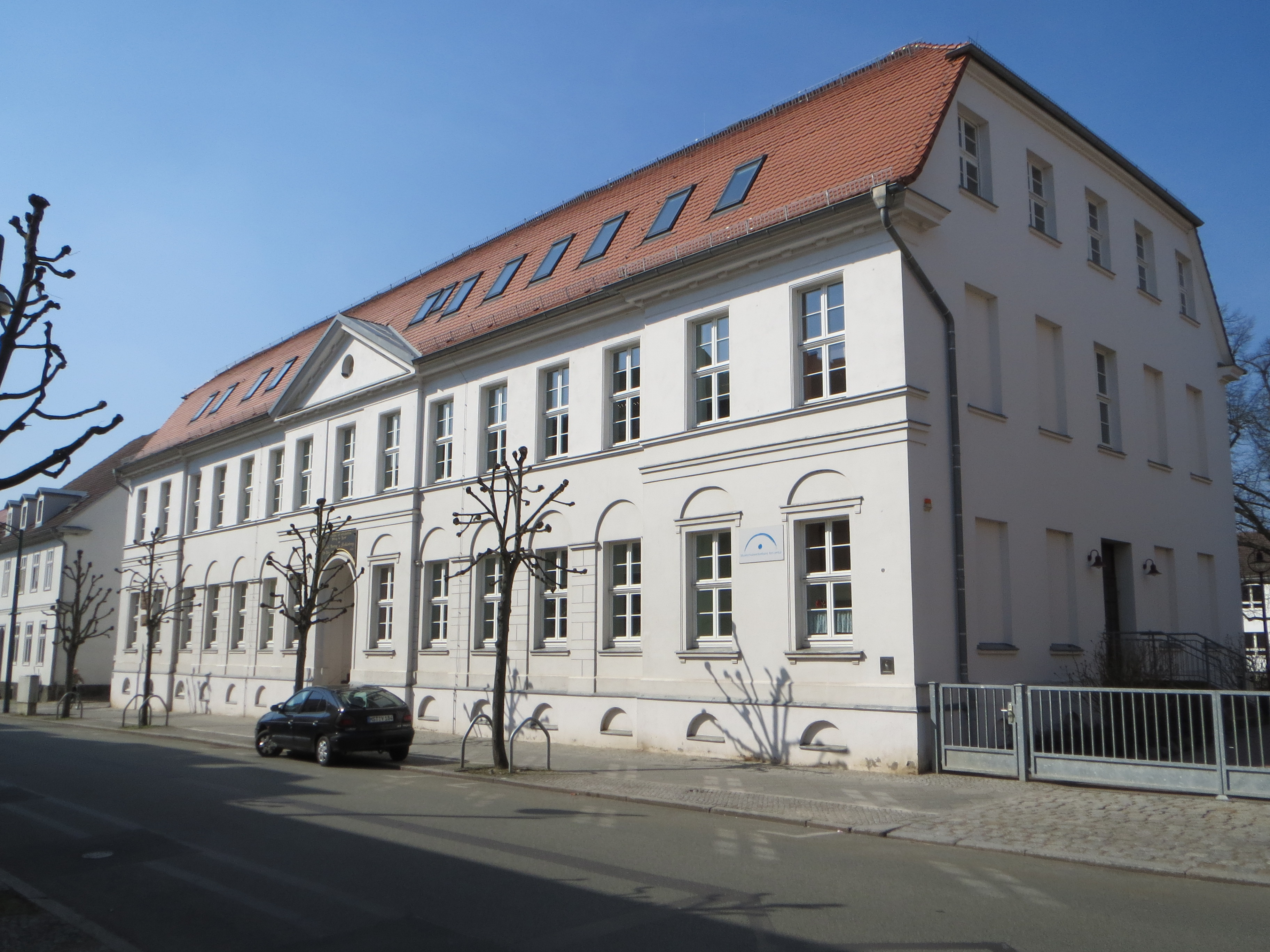 Altes Carolinum (Musikschule), Neustrelitz